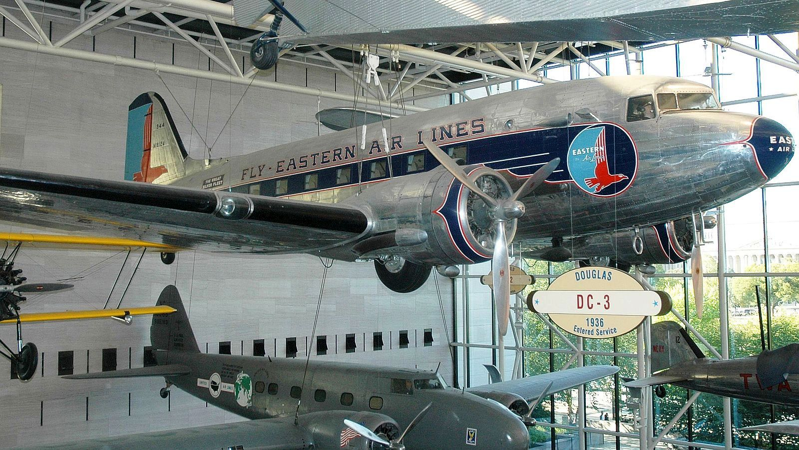 Delivered to Eastern Air Lines in 1937,the aircraft is on display at the Smithsonian National Air and Space Museum on Washington Mall, Washington DC.